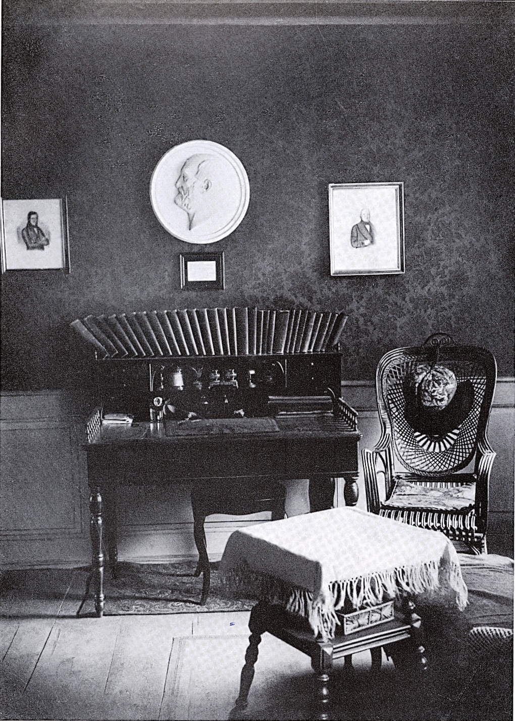 Wohnhaus Robert Mayer, Kirchöfle Nr. 13 Heilbronn, Arbeitszimmer, 1878, D032-442.JPG